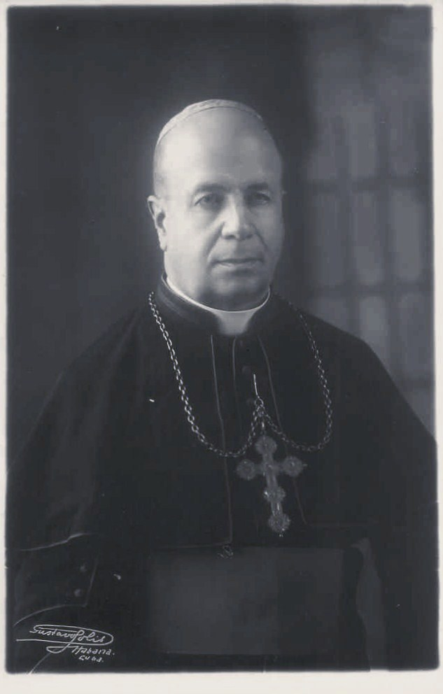 Monsignor Martín Tritschler archbishop of Yucatán, exiled in Habana, Cuba, during the cristera war.